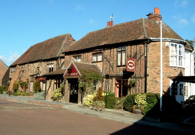 Wyllyott's Manor, Potters Bar. Formerly a Manor House now a pub/restaurant. This is almost certainly the finest building in Potters Bar. Sometimes spelt : Wyllyott's